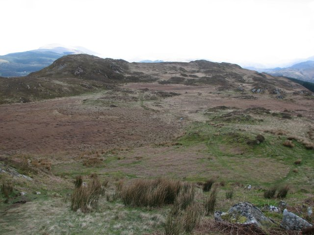 Hooker Moss Wet area, just to the east of Muncaster Fell's summit.